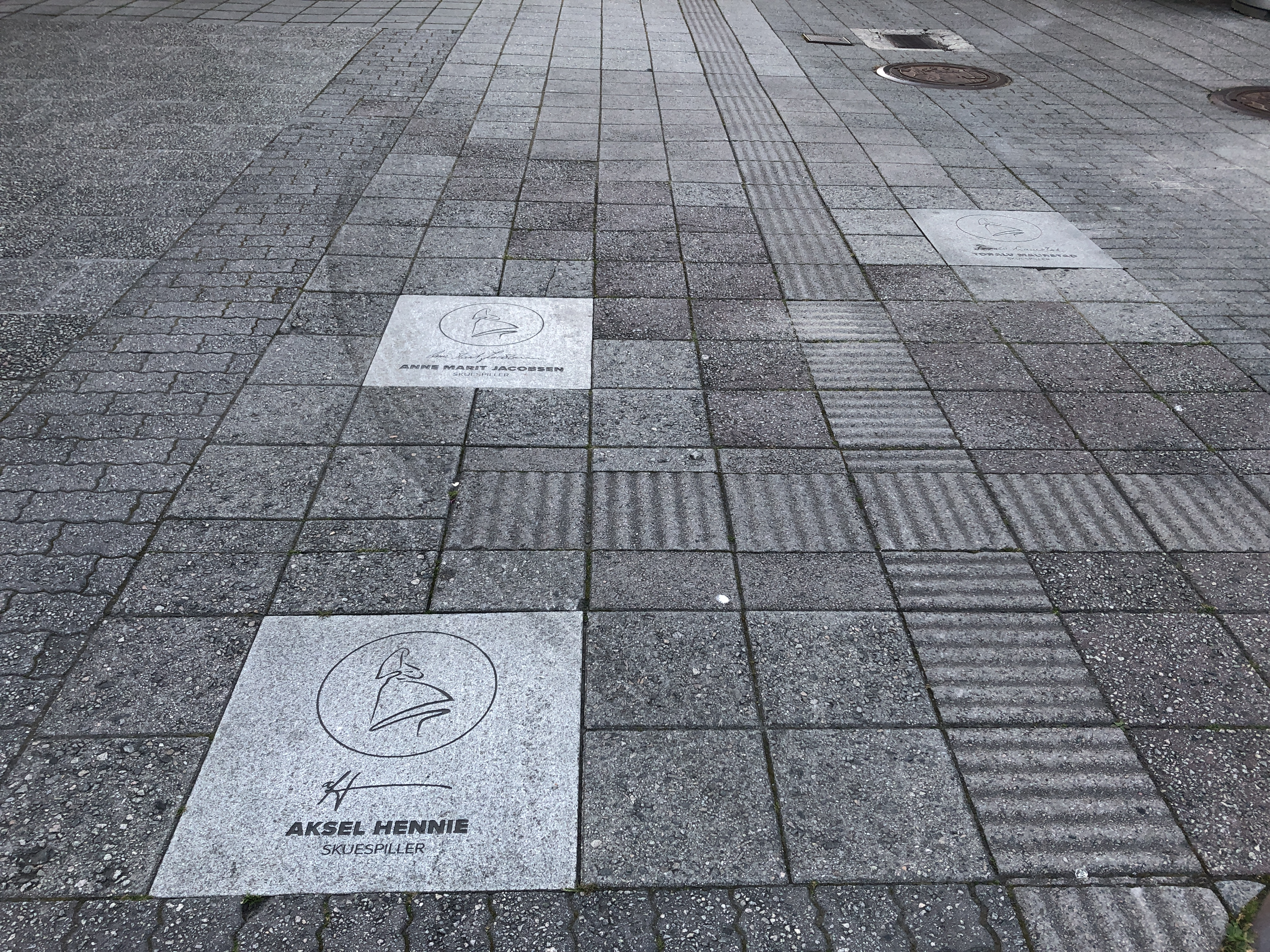 three of the stones in Haugesund walk of fame.